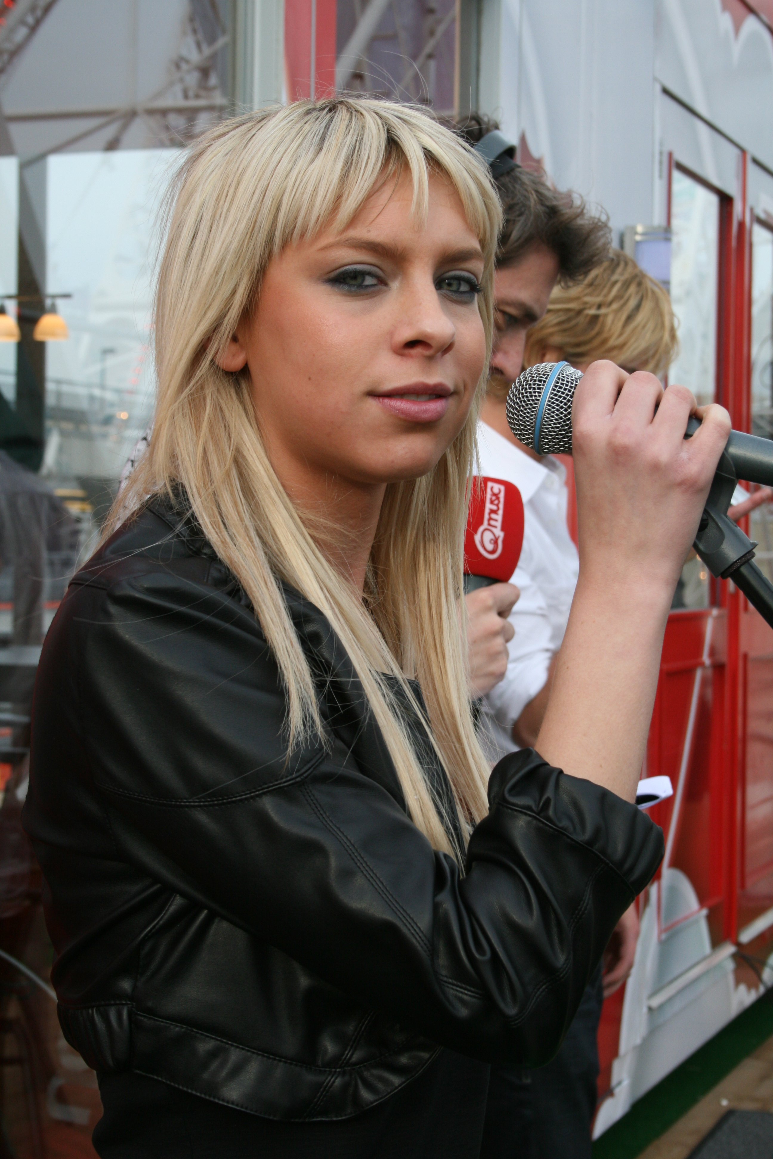 Jelle van Dael (Lasgo singer) doing a soundcheck during her visit to Q-music (De Draaiende Studio), Wijnegem Shopping Center, Wijnegem, Belgium.